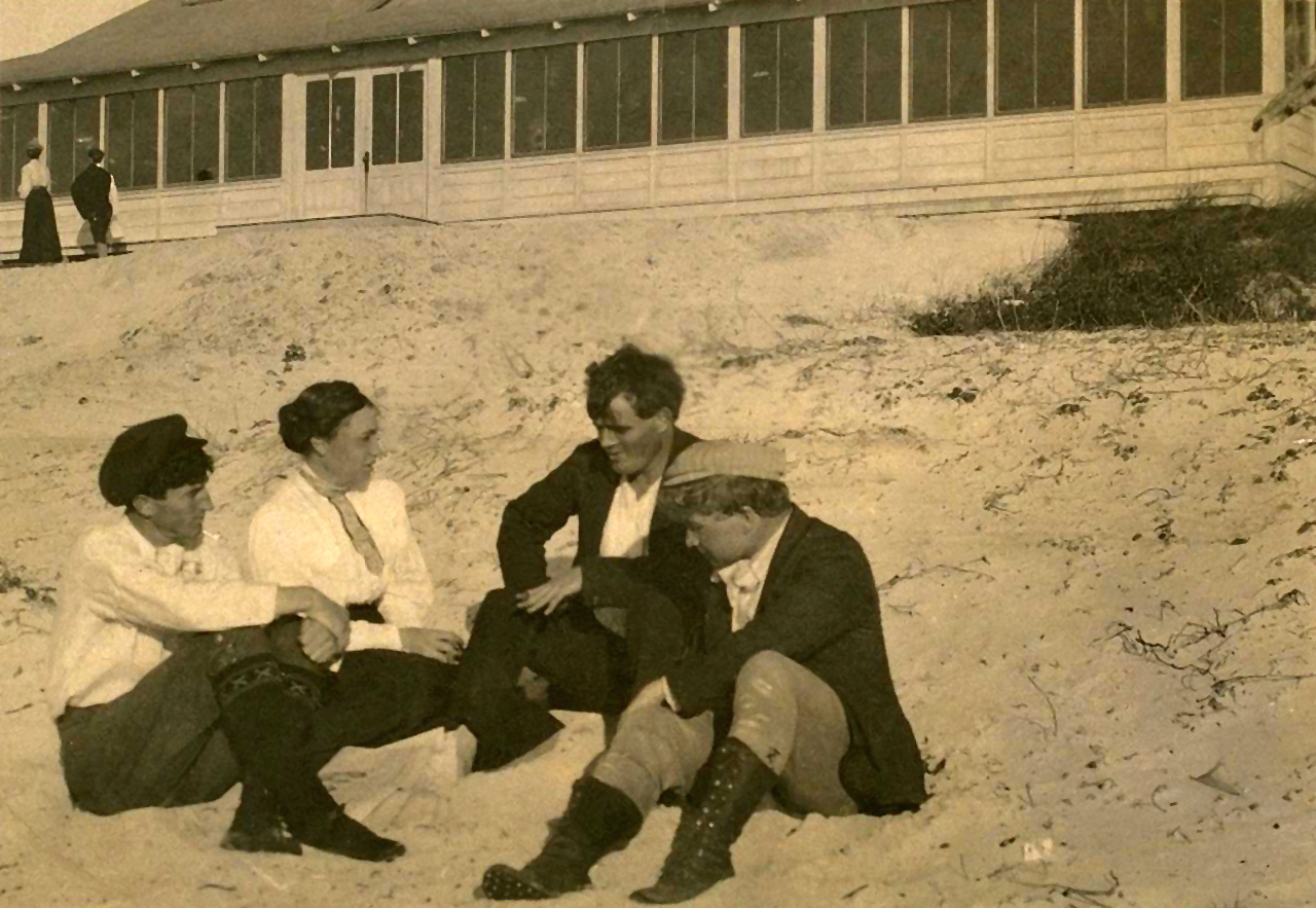 This is a restored image of a photograph created by photographer, Arnold Genthe. The image depicts the artists, poet and writers, George Sterling, Mary Austin, Jack London, and James "Jimmy" Hopper on the beach at Carmel-by-the-Sea, California. For a rare chance to see the photographer in the process of taking this image see here File:Arnold Genthe photographing George Sterling, Mary Austin, Jack London and Jimmie Hooper on the beach at Carmel.jpg.